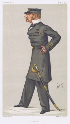 Caricature of Sir Allen Young. Caption read "Alleno".